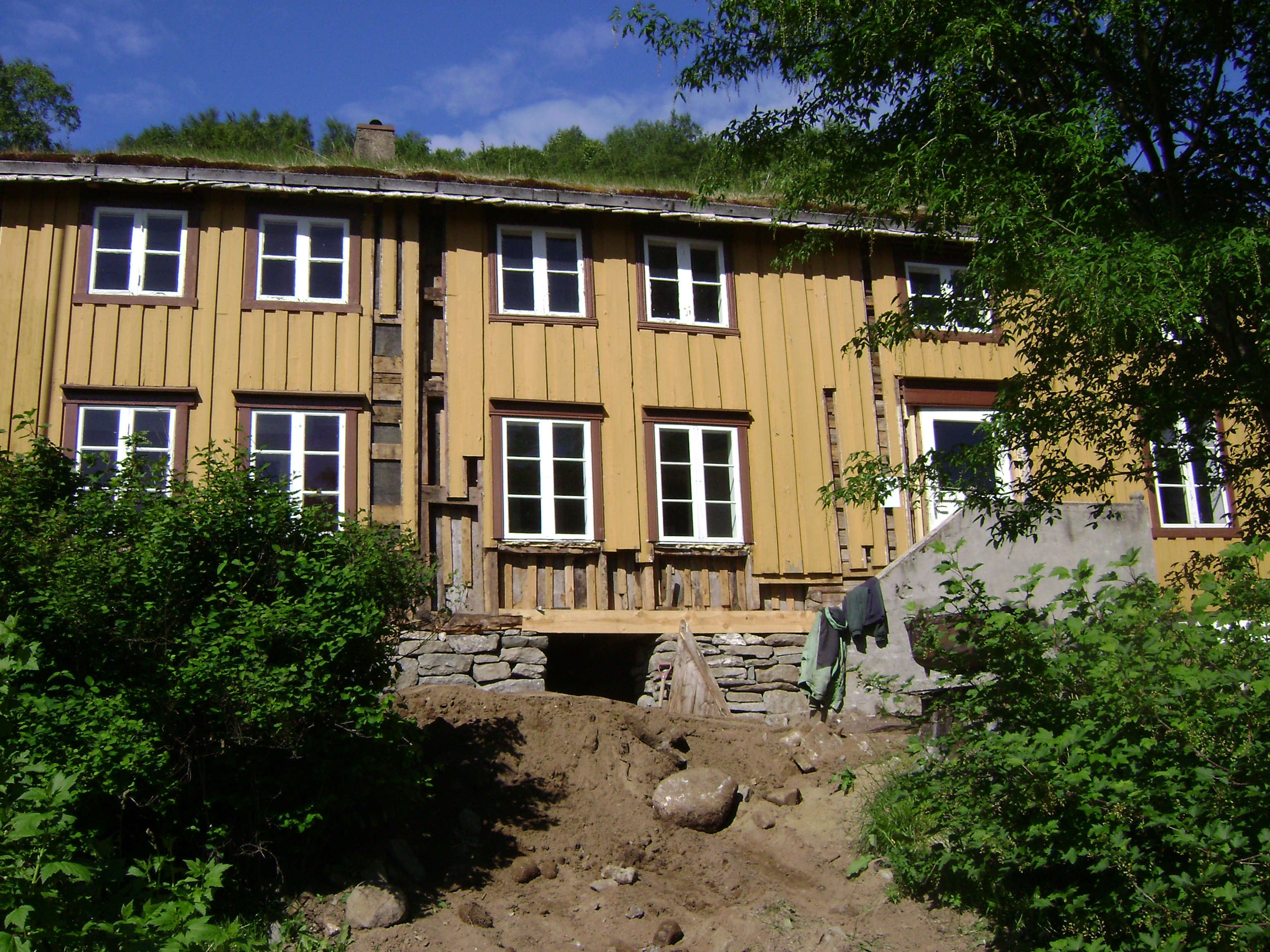 Hamsund farm, Hamarøy county, Nordland